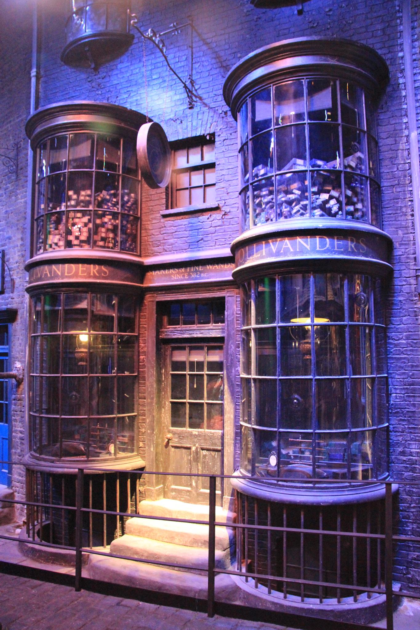 Warner Bros. Studio Tour London: The Making of Harry Potter.